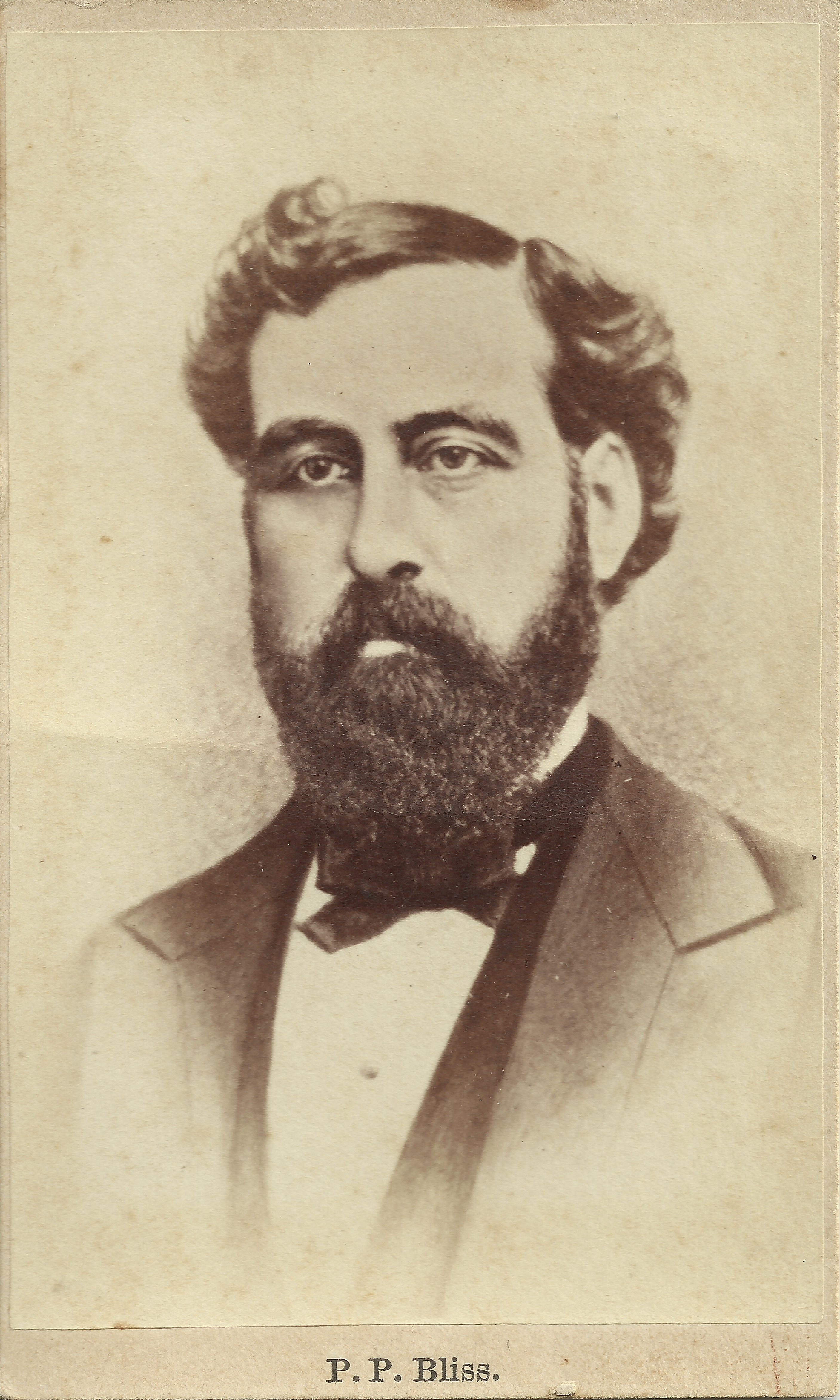 Carte de Visite of Philip Bliss